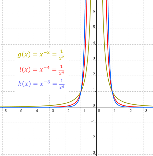 Inverse even power function